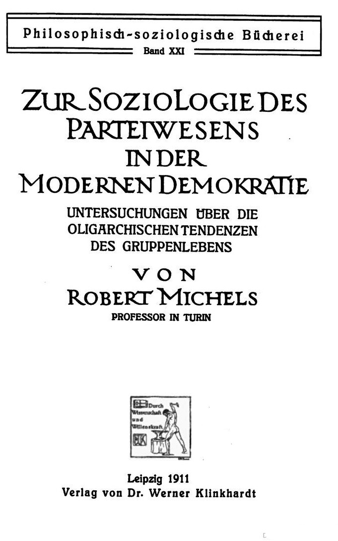 This is a scan of the title page of the book Zur Soziologie des Parteiwesens in der modernen Demokratie by Robert Michels. Published by Klinkhardt in Leiden 1911.